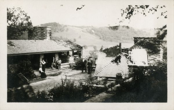 Frank Lloyd Wright (left) surveys damage after the Taliesin I attack in 1914